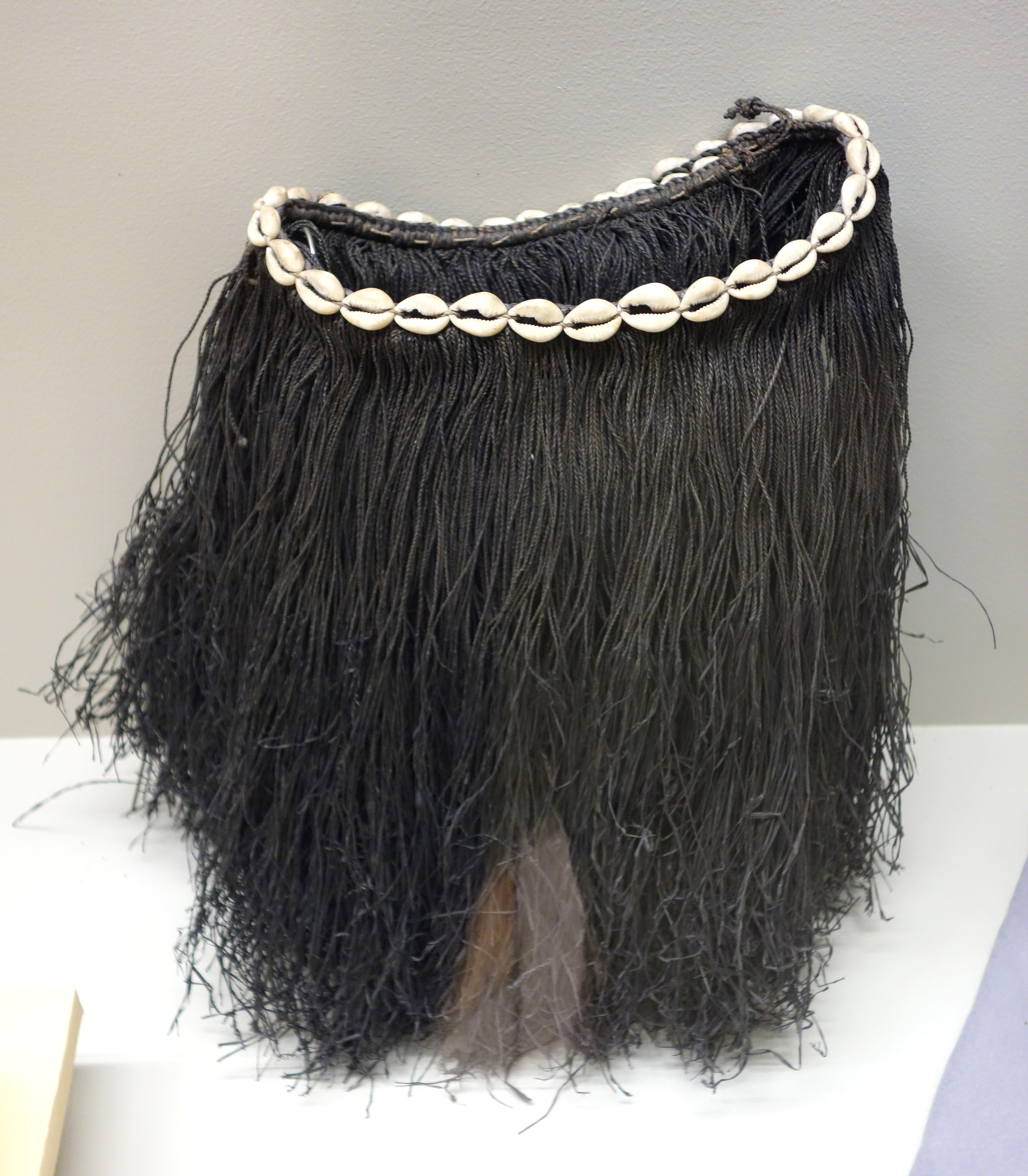 Exhibit in the Royal Museum for Central Africa, Tervuren, Belgium. This object is old enough so that it is in the public domain.